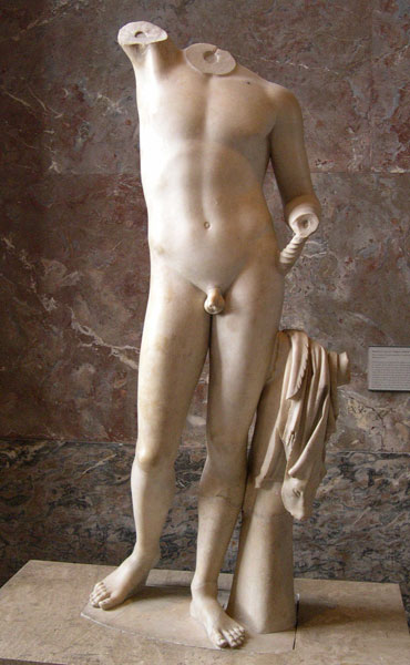 Torso of the type of the Pouring Satyr. Carrara marble, Roman copy from 1st half of the 2nd century AD after a Greek original from the 4th century BC.